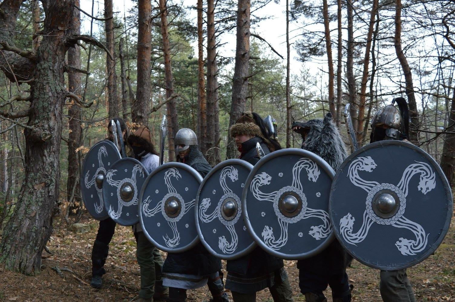 Clan Dulo